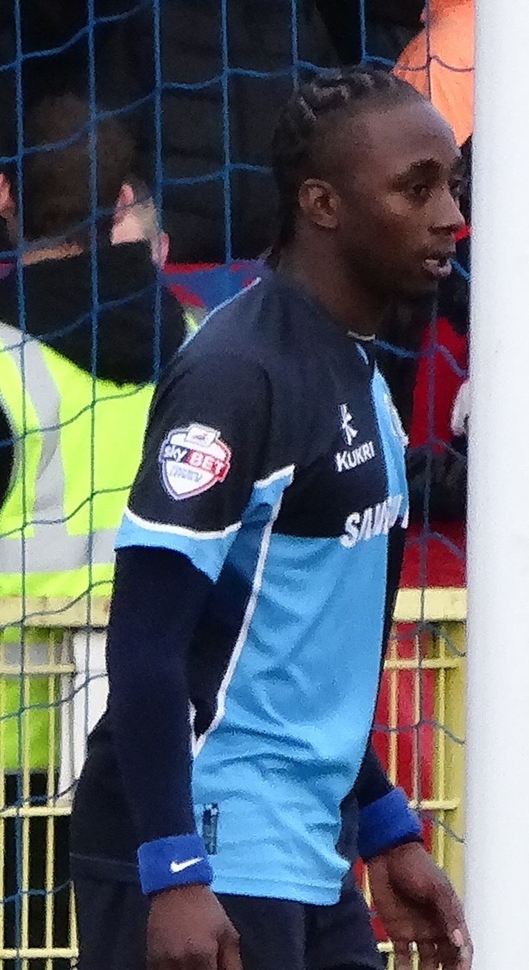 Marvin McCoy.